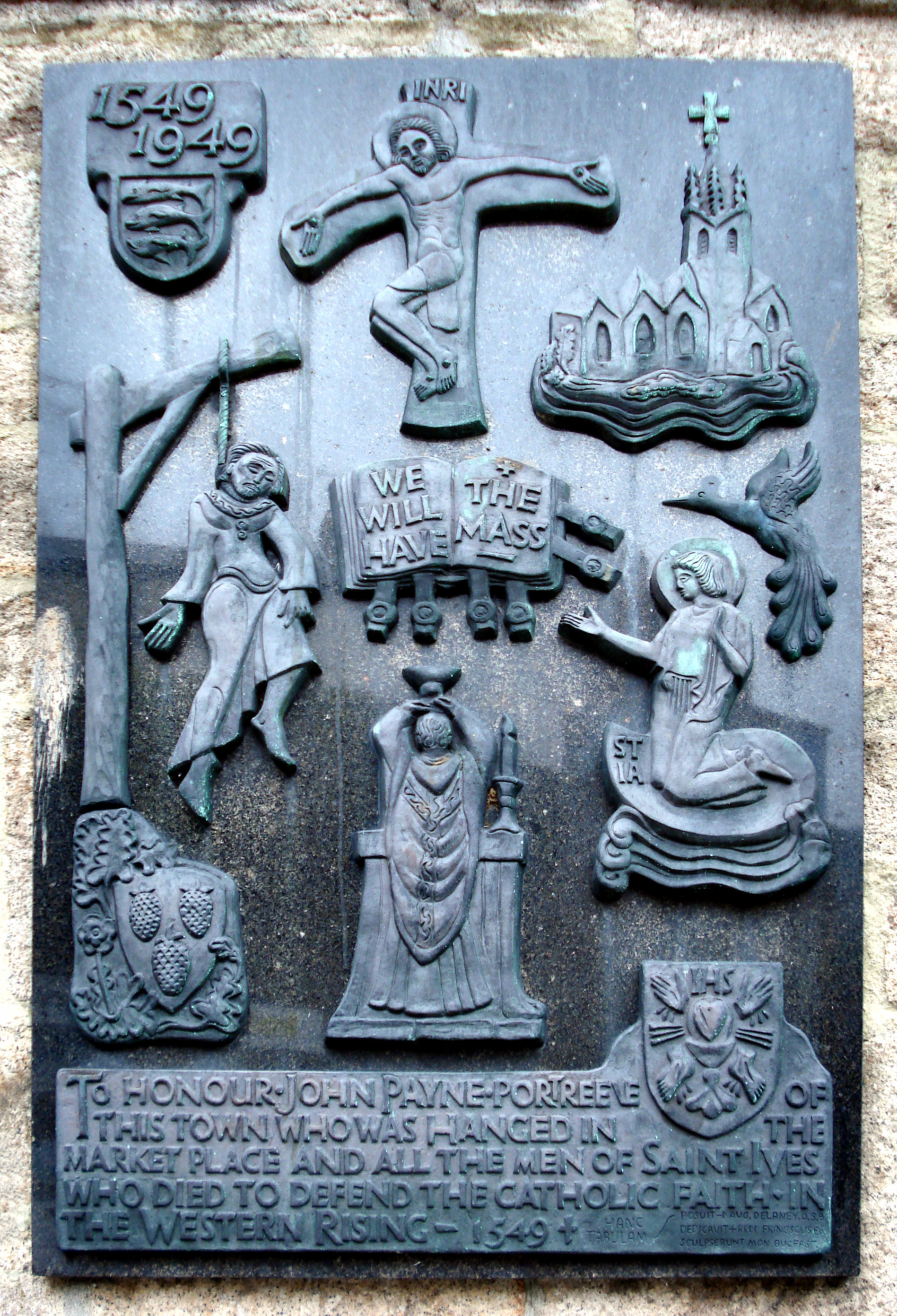 A photograph of The memorial to John Payne, Portreeve of St. Ives, Cornwall, who was hanged by the Provost Marshall for being a participant in the Prayer Book Rebellion in 1549.